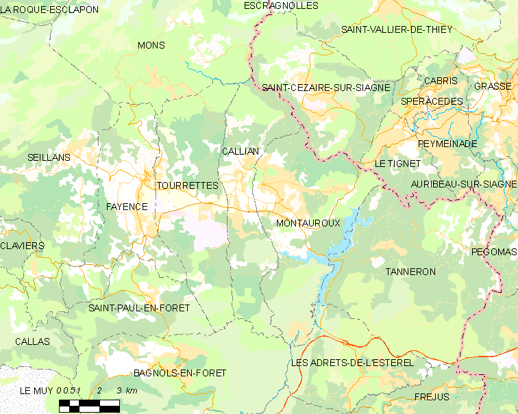 Map of French municipality Callian